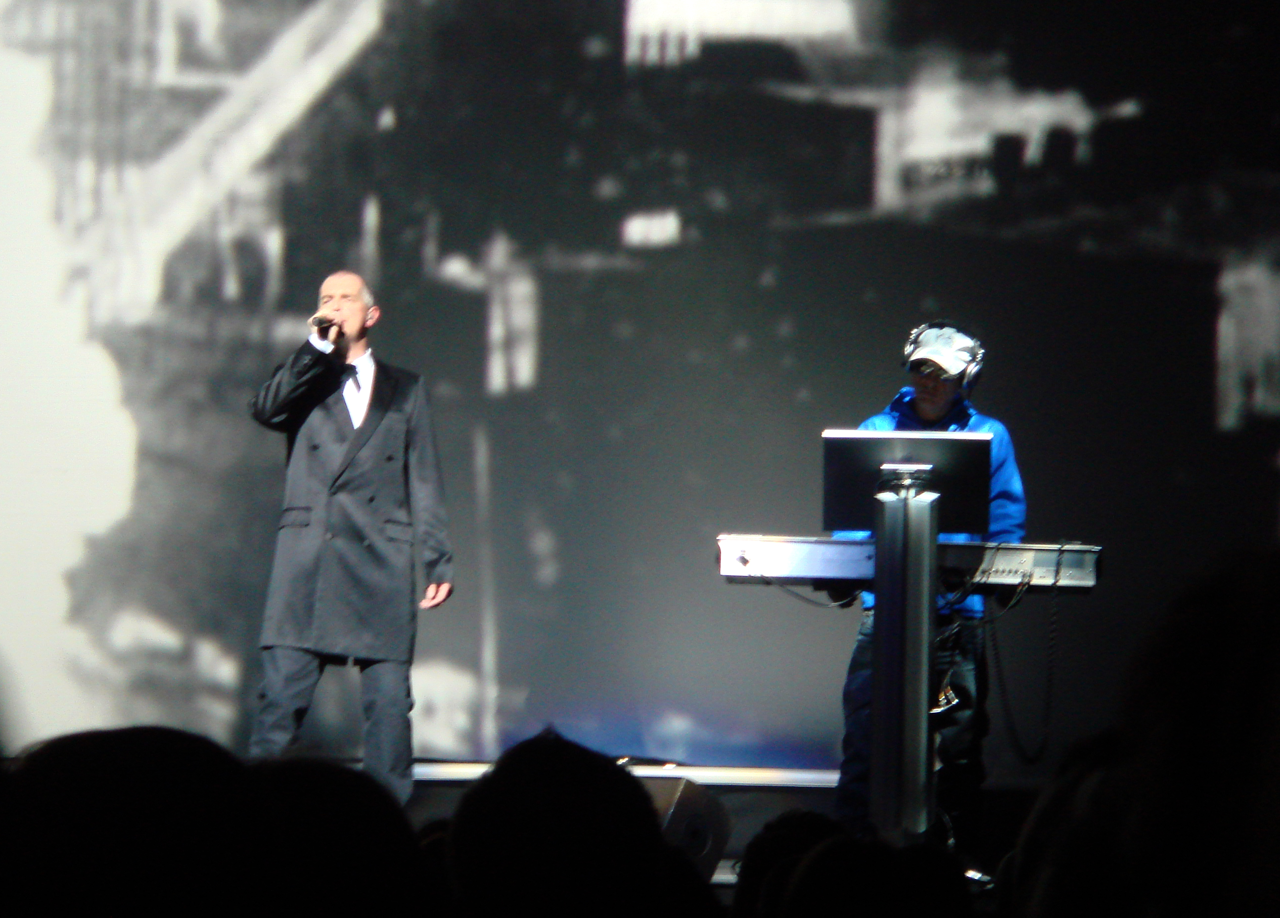 Pet Shop Boys live at the sage.